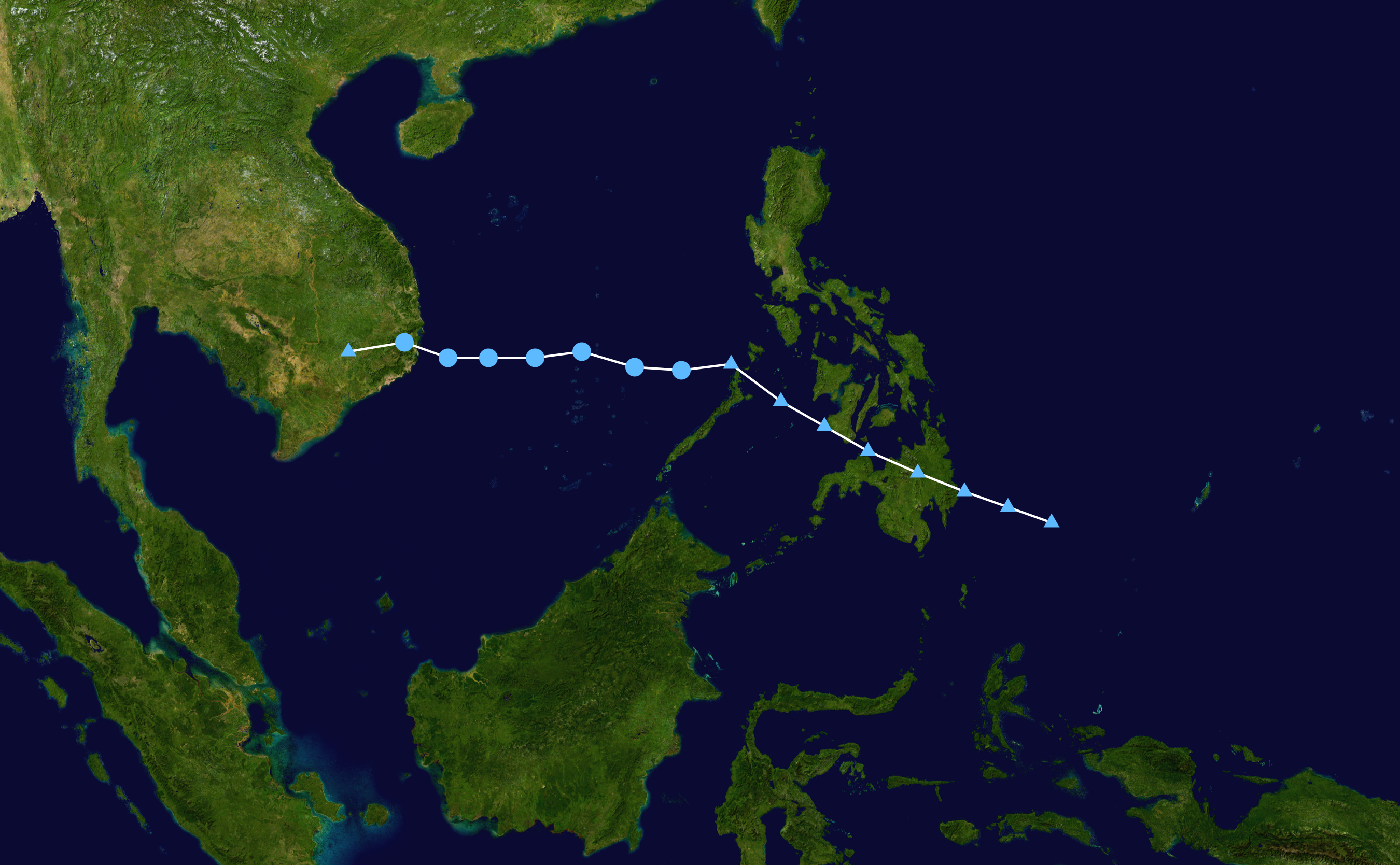 Track map of Tropical Storm Podul of the 2013 Pacific typhoon season. The points show the location of the storm at 6-hour intervals. The colour represents the storm's maximum sustained wind speeds as classified in the Saffir–Simpson scale (see below), and the shape of the data points represent the nature of the storm, according to the legend below. Saffir–Simpson scale Tropical depression≤38 mph≤62 km/h Category 3111–129 mph178–208 km/h Tropical storm39–73 mph63–118 km/h Category 4130–156 mph209–251 km/h Category 174–95 mph119–153 km/h Category 5≥157 mph≥252 km/h Category 296–110 mph154–177 km/h Unknown Storm type Tropical cyclone Subtropical cyclone Extratropical cyclone / Remnant low / Tropical disturbance / Monsoon depression